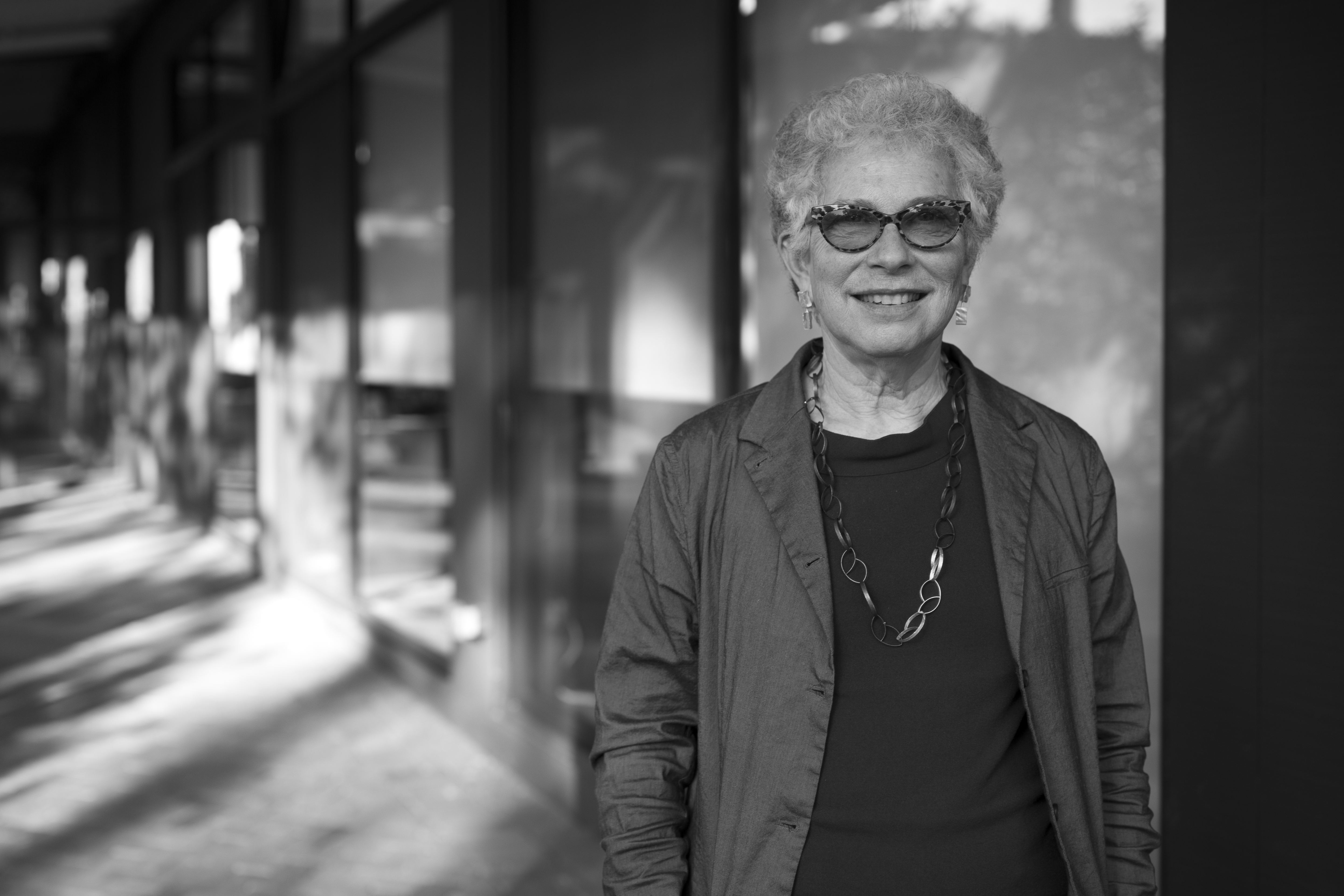 Margaret Levi at the Center for Advanced Study in the Behavioral Sciences in 2019.